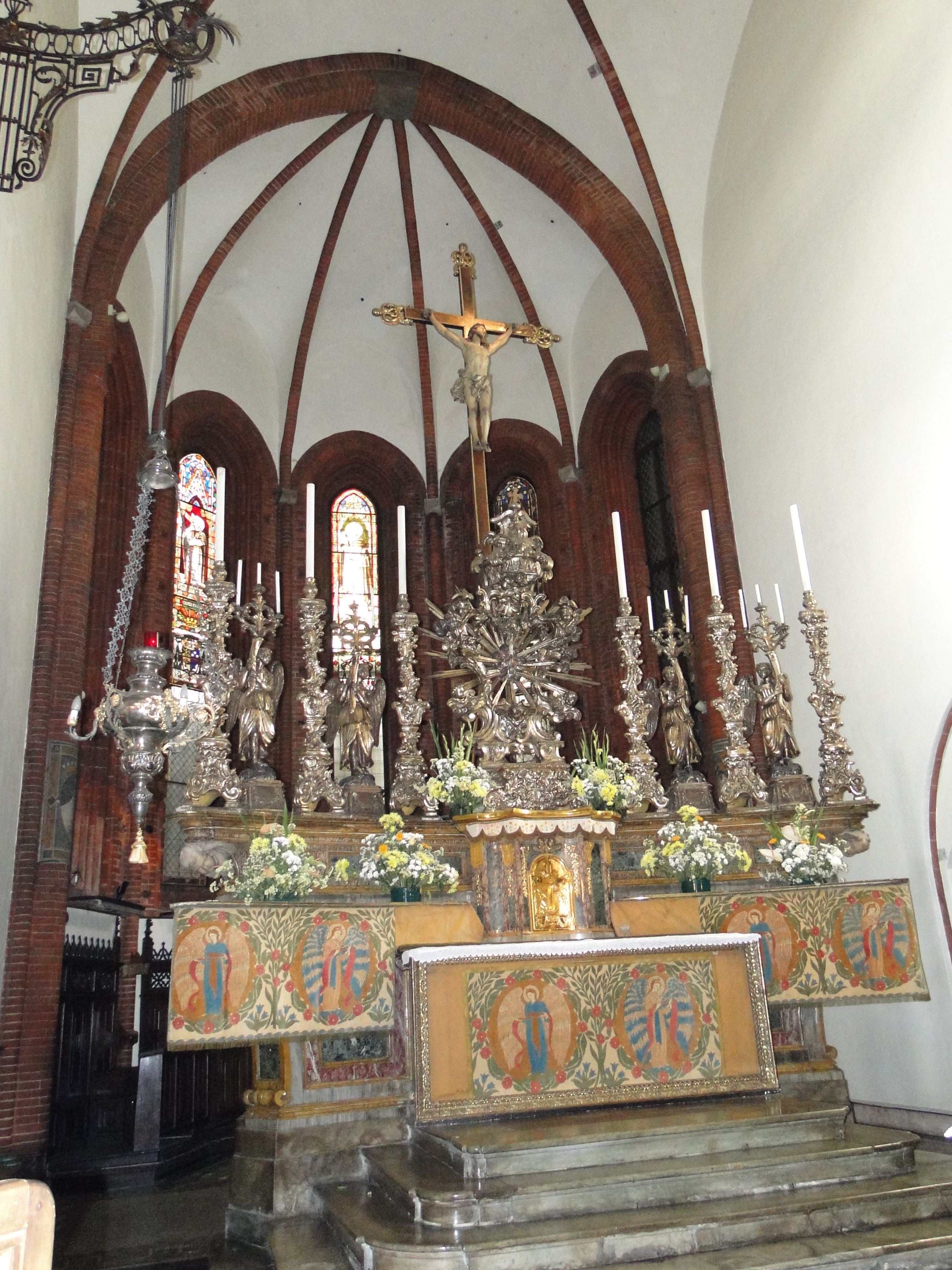 Church of St Dominic in Turin - Main altar